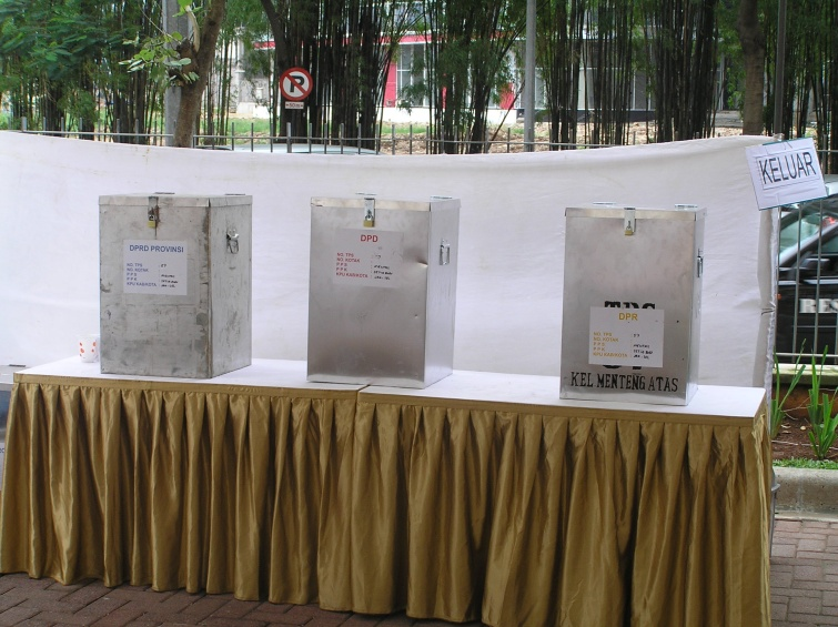 Ballot boxes for the 2009 Indonesian legislative elections